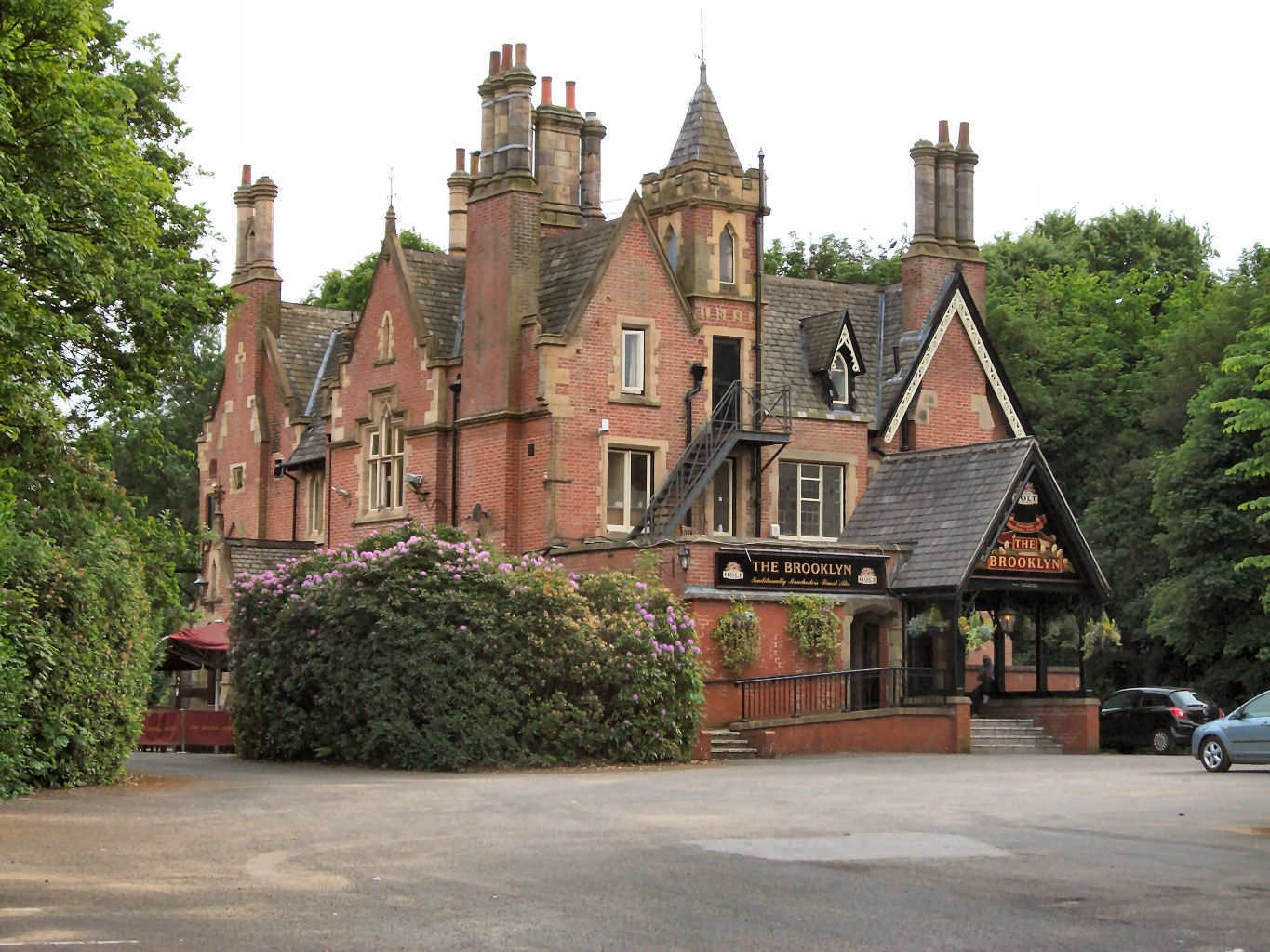 Photograph of The Brooklyn public house, Bolton, Greater Manchester, England